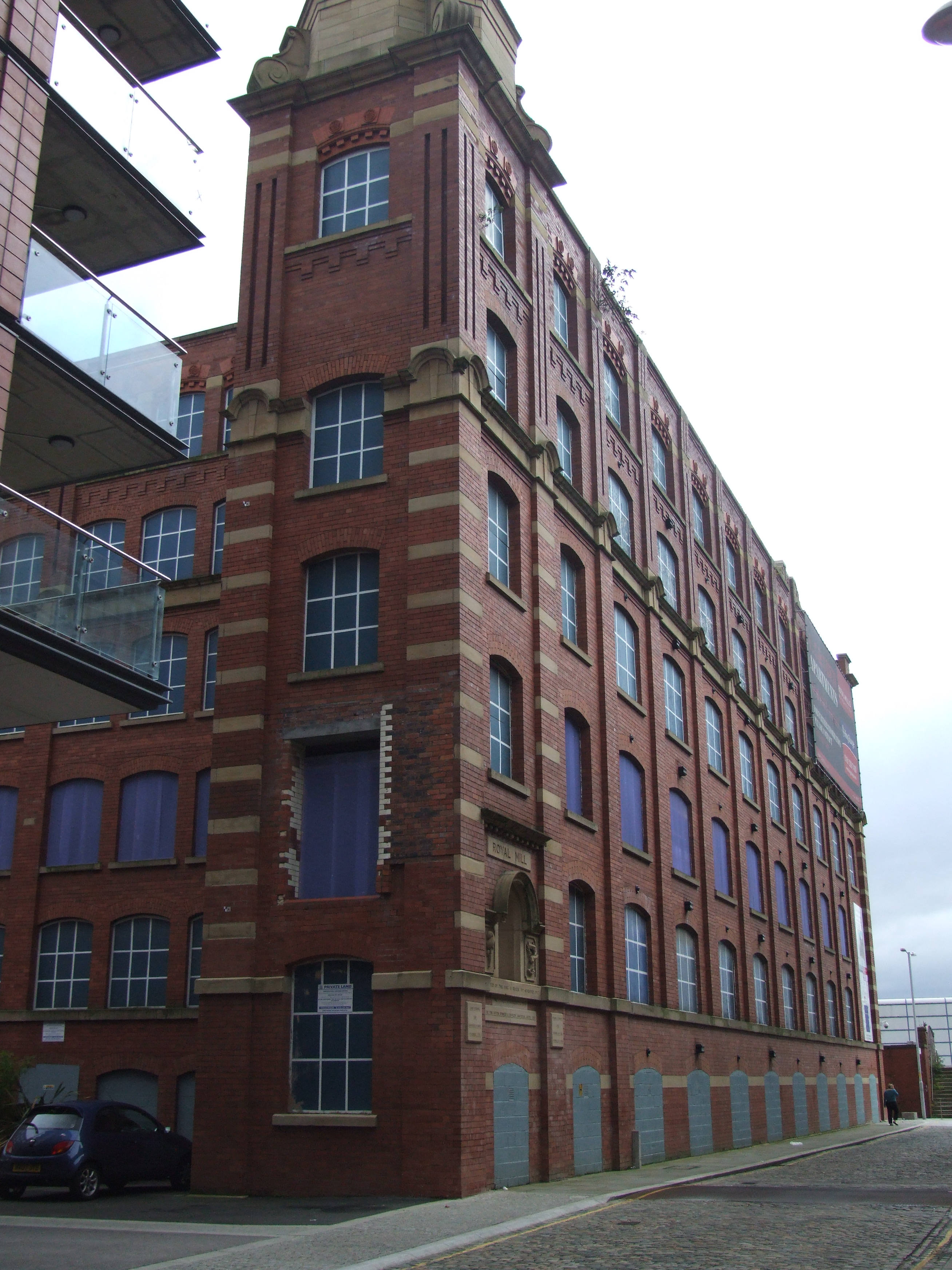 The first cotton mills were built in Ancoats as early as 1790. Royal Mill